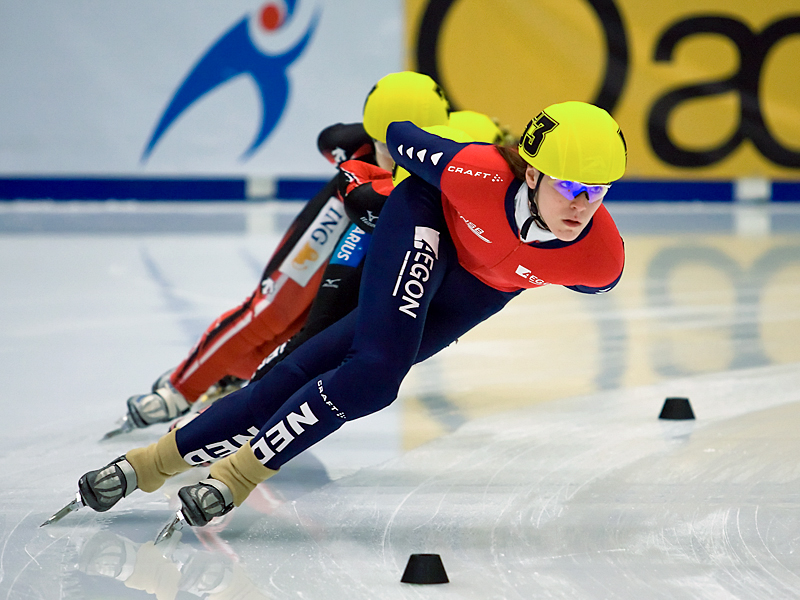 Jorien ter Mors (Enschede, December 21, 1989) is a Dutch short track speed skater.